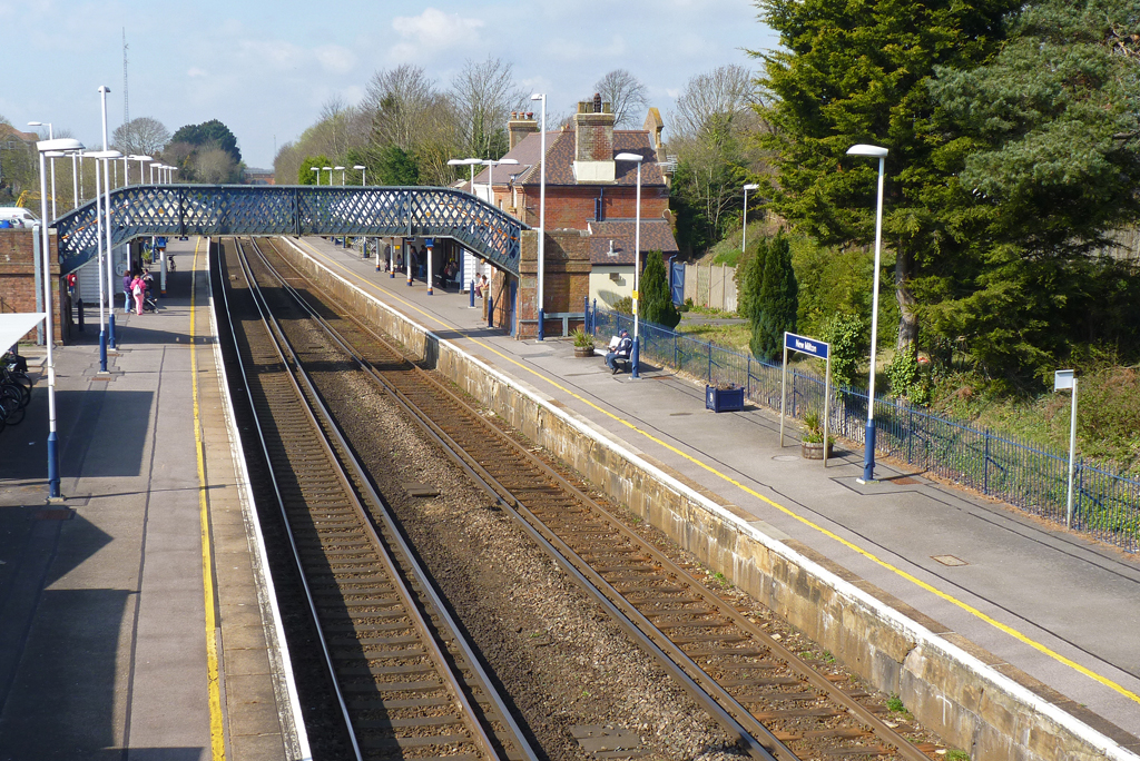 This is on the busy London to Bournemouth route, so there is a frequent service.